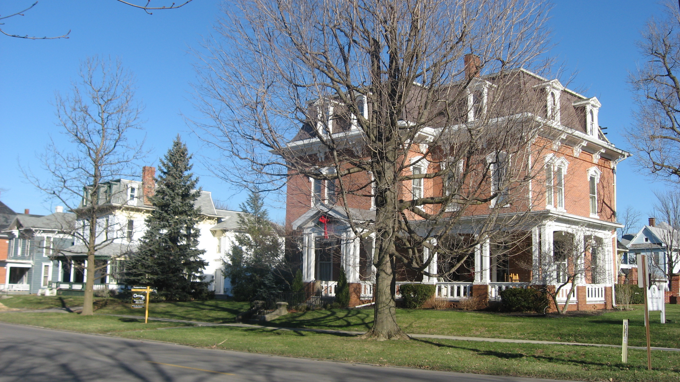 Houses on the eastern side of N. Main Street (State Route 53) north of the Summit Street intersection in Kenton, Ohio, United States. This block is part of the North Main-North Detroit Street Historic District, a historic district that is listed on the National Register of Historic Places.